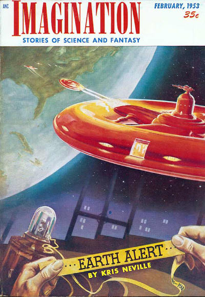 Cover of Imagination, February 1953